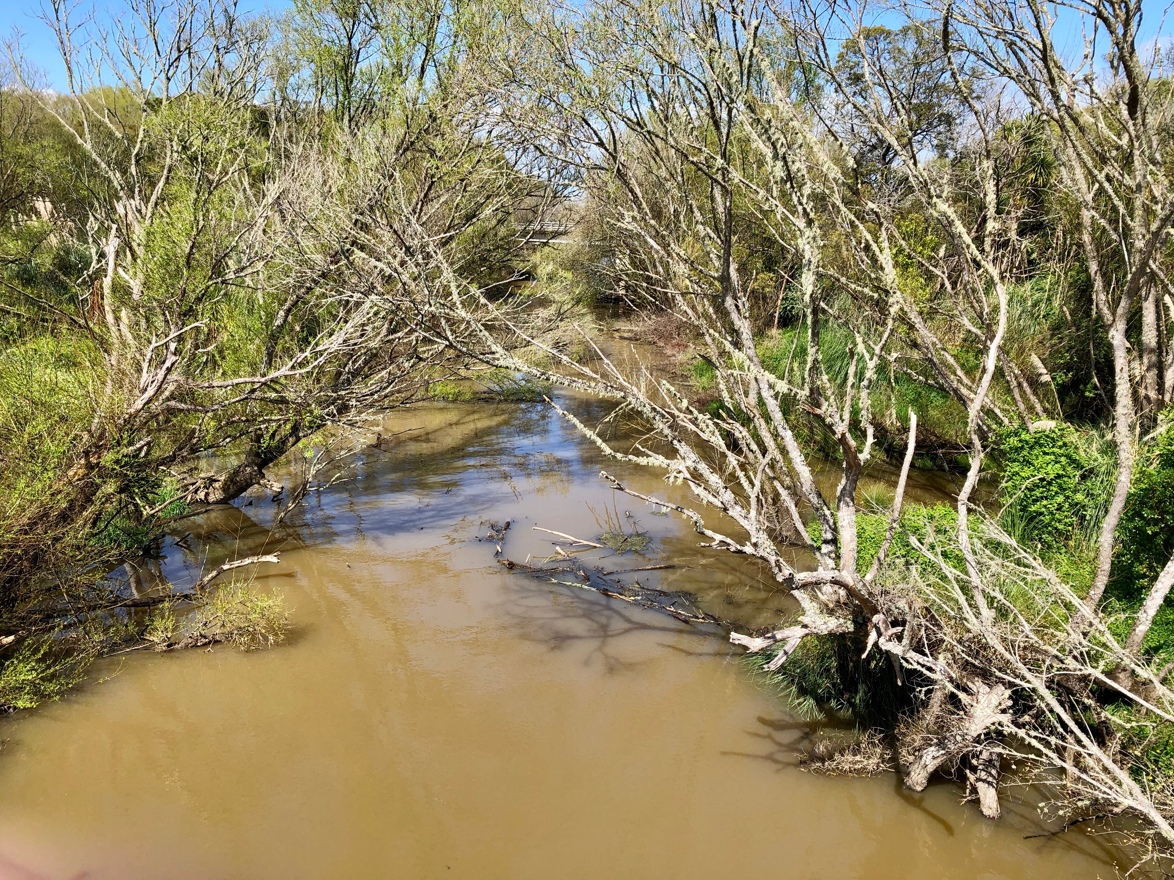 Mangatawhiri River